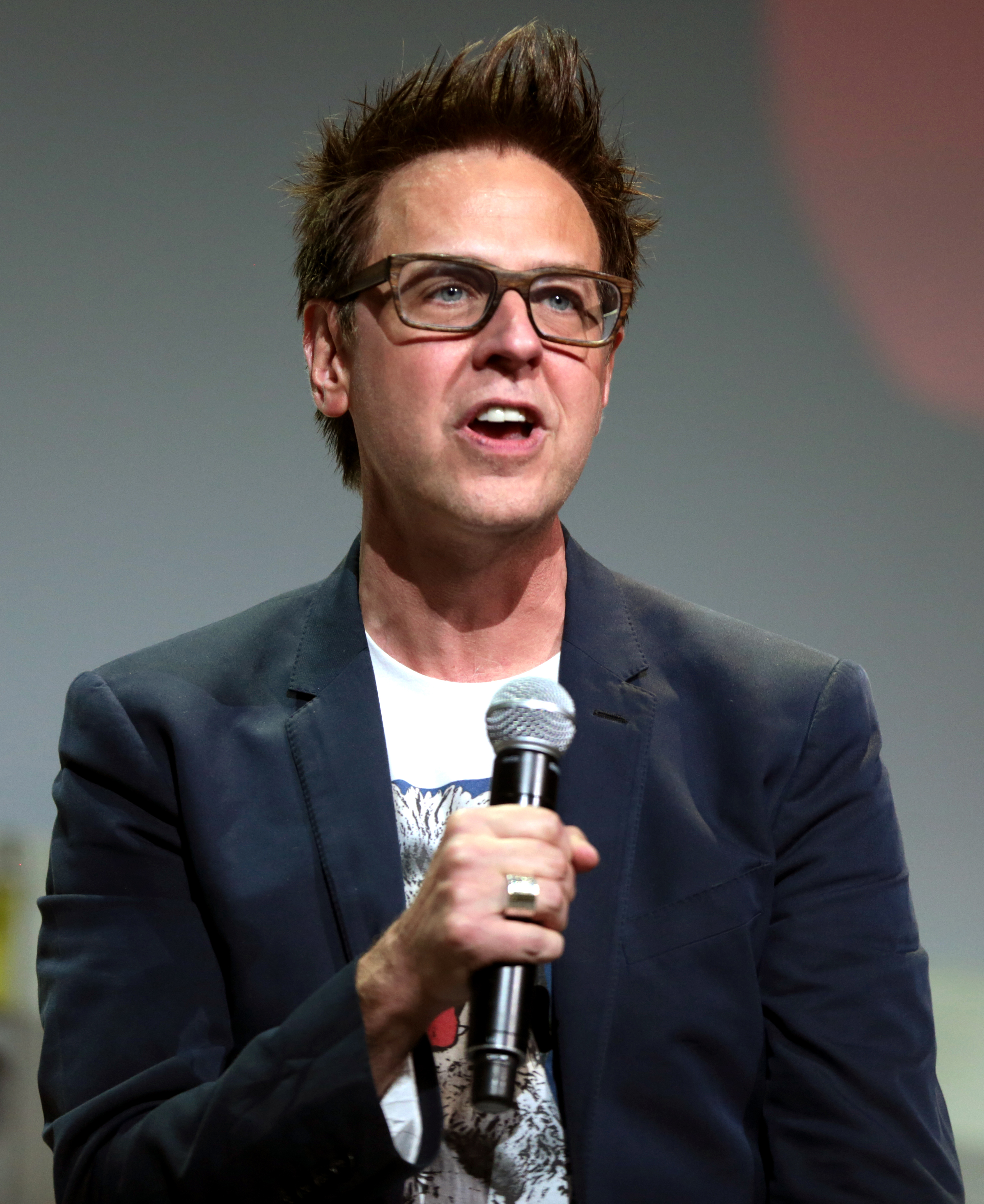 James Gunn speaking at the 2016 San Diego Comic-Con International in San Diego, California.